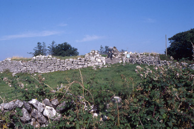 Cathair Mhic Neachtain in the townland of Cahermacnaghten. Entrance to stone fortification, site of a famous Irish law school in sixteenth century.